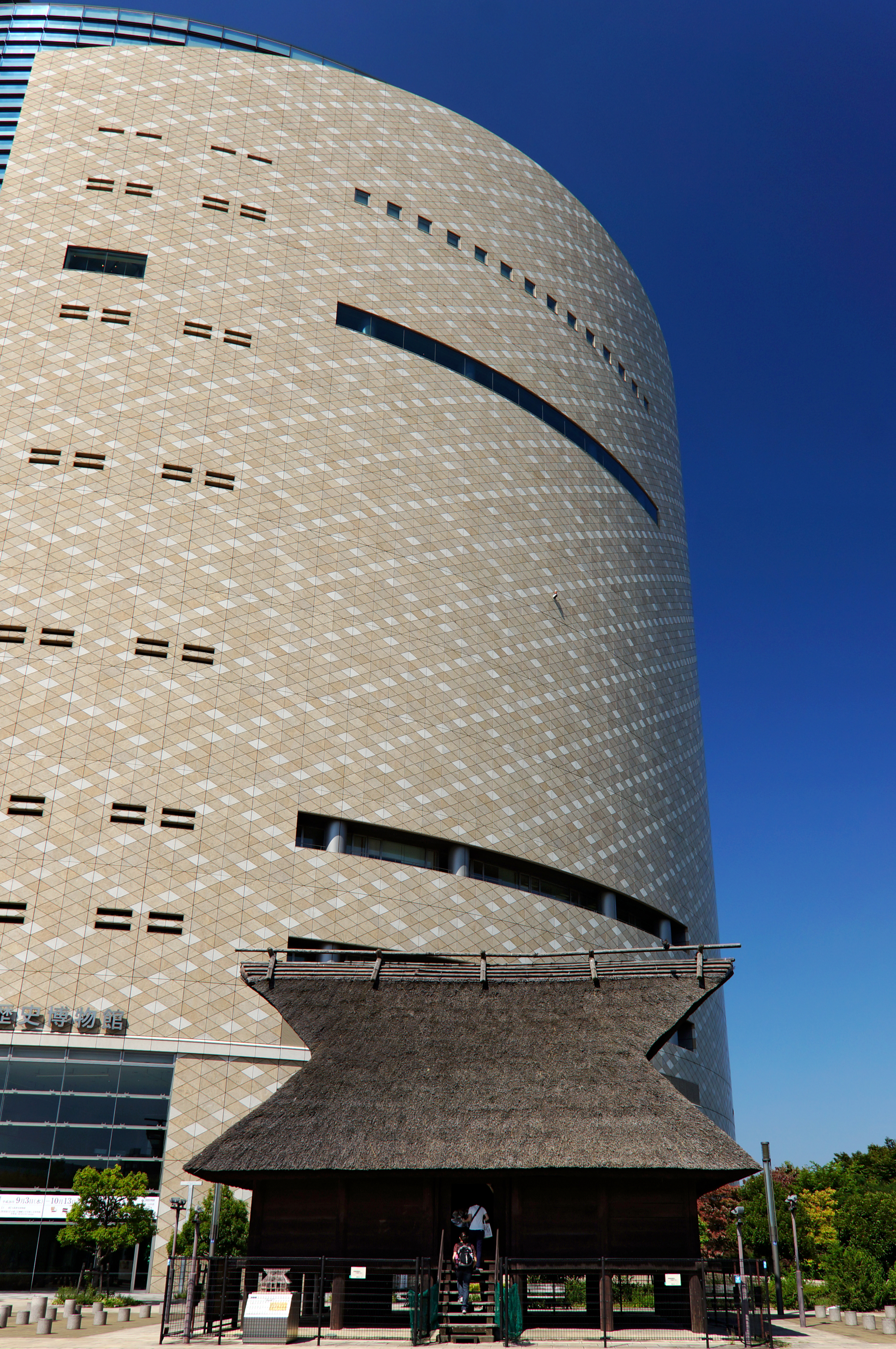 Osaka Museum of History in Osaka, Osaka prefecture, Japan